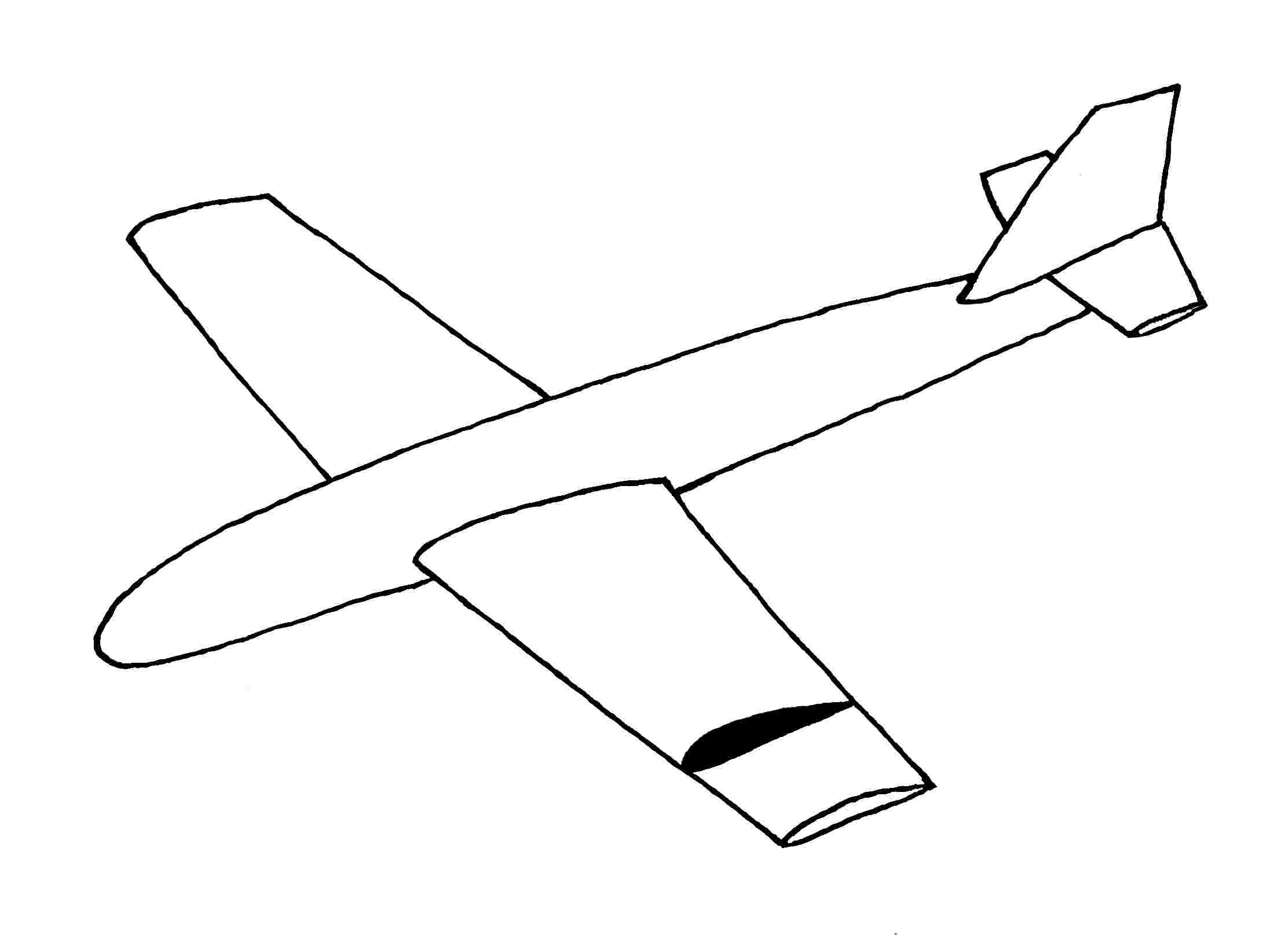 Diagram showing an airfoil shape as a cross-section of a three-dimensional wing of an airplane Other information No